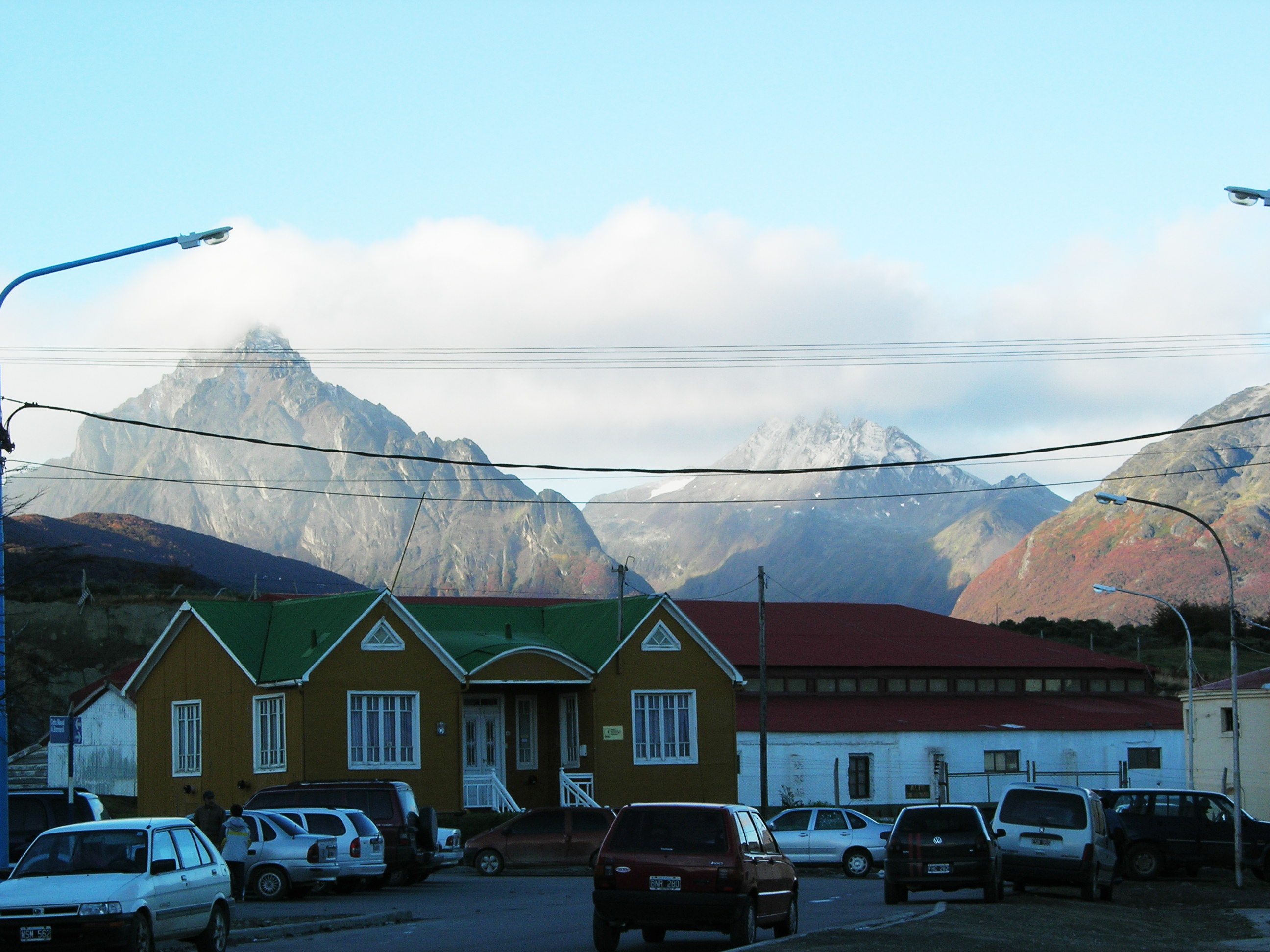 Ushuaia (Argentina)